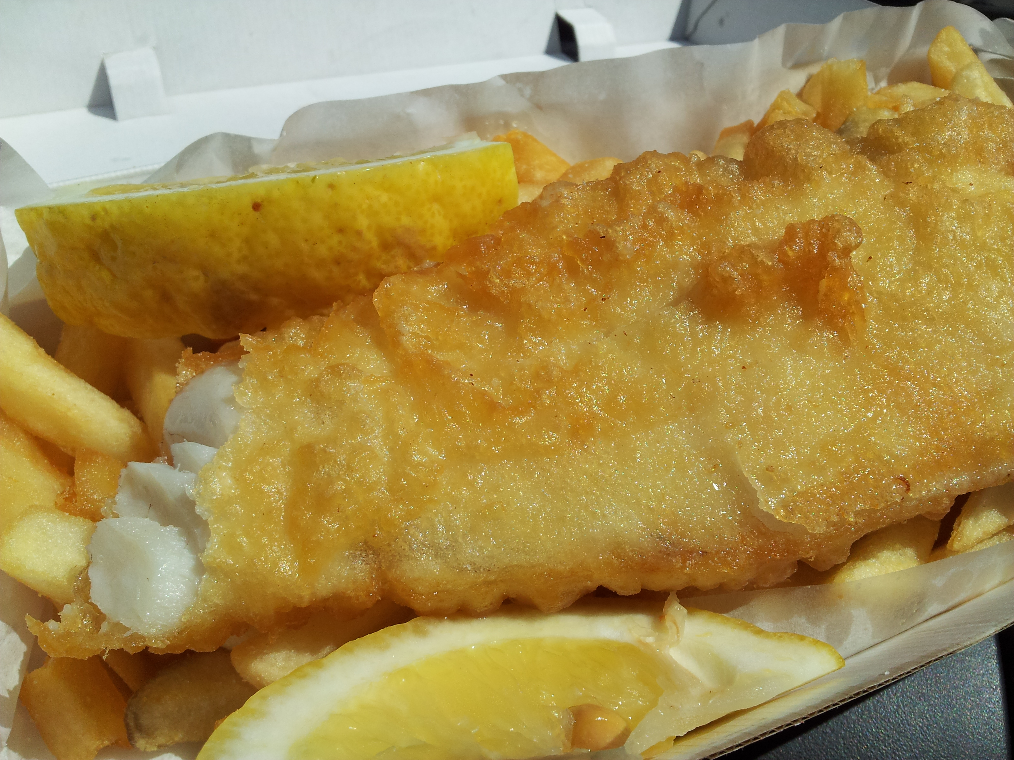 Takeaway Fish and Chips served in Sydney, Australia